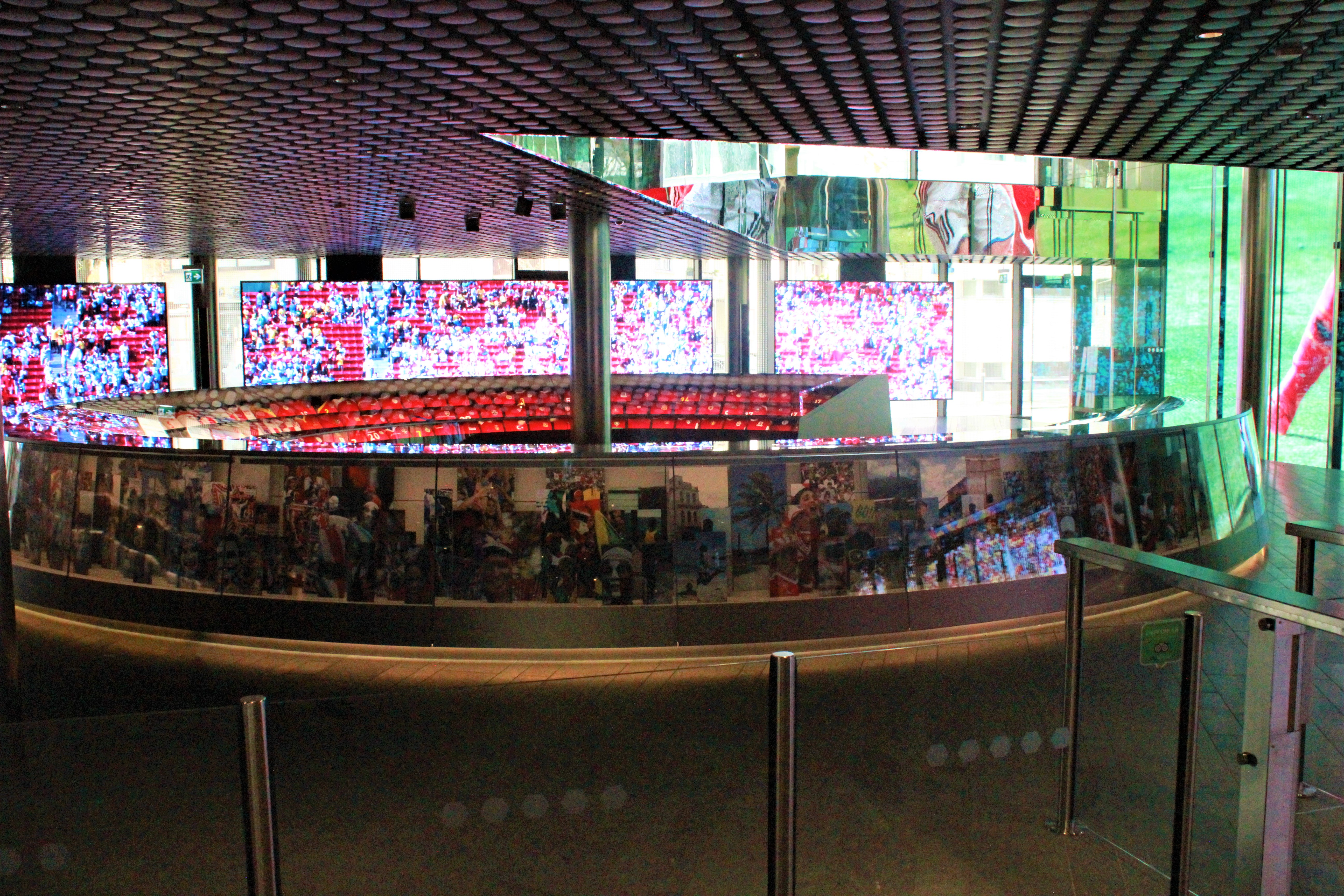 The entrance area on the main floor of the FIFA World Football Museum. The show is called "Planet Football" and features among others the jerseys of all national teams.